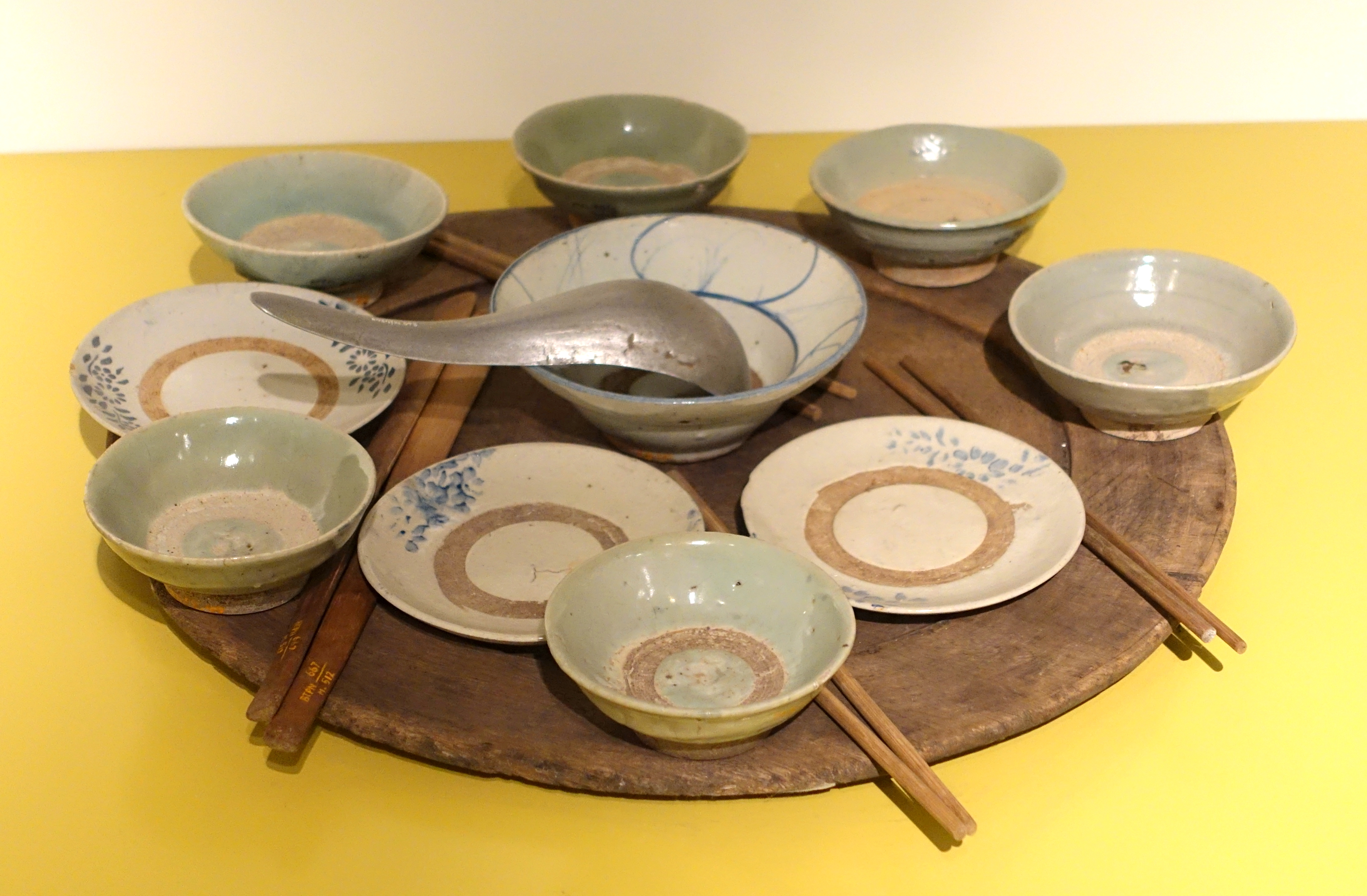 Exhibit in the Vietnamese Women's Museum, Hanoi, Vietnam.